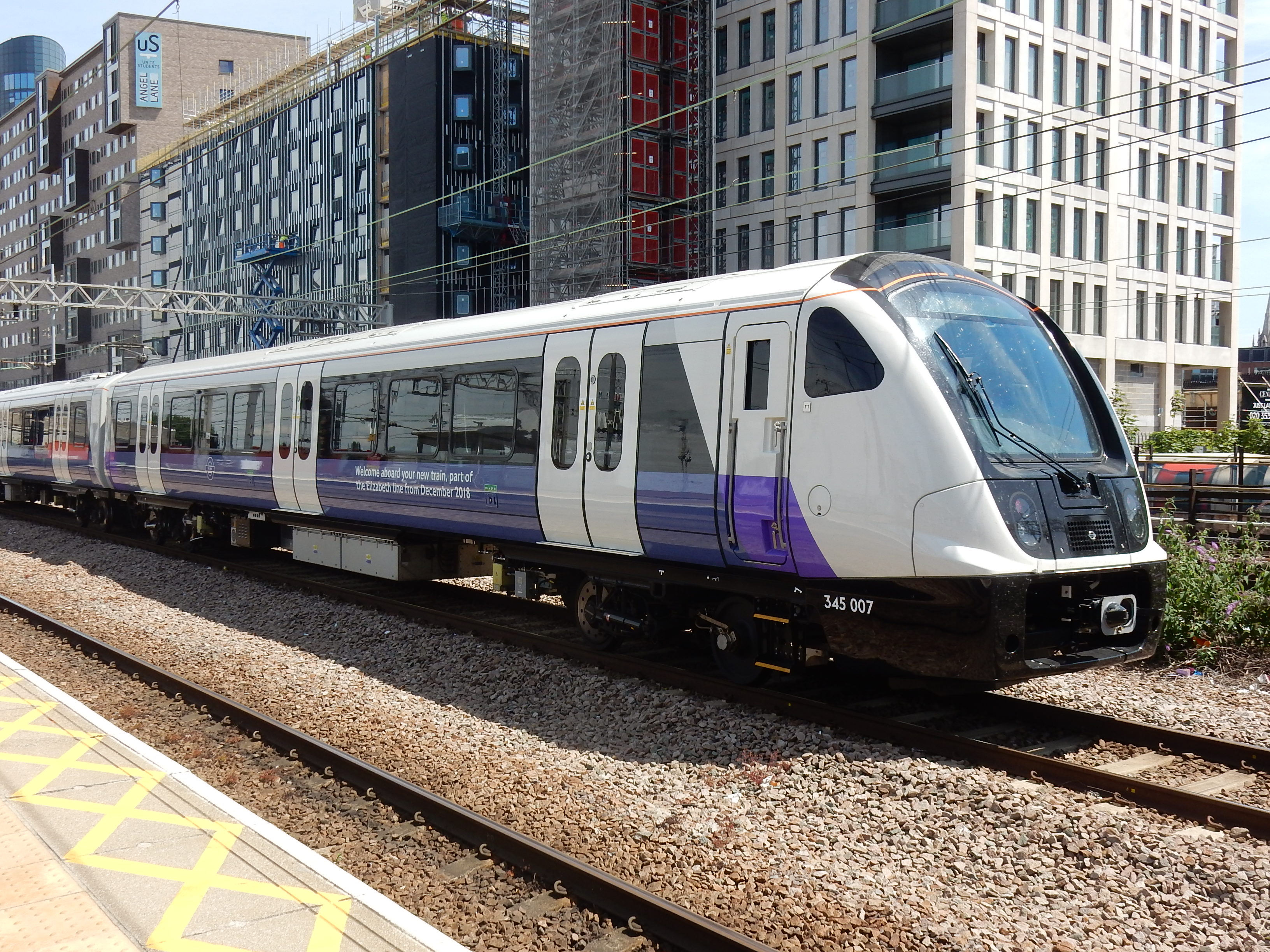 Class 345 unit 345007 passes Stratford eastbound with an empty coaching stock service to Gidea Park sidings, on 7th July 2017. It had earlier arrived at Liverpool Street with the (at time of writing) daily westbound service from Shenfield.